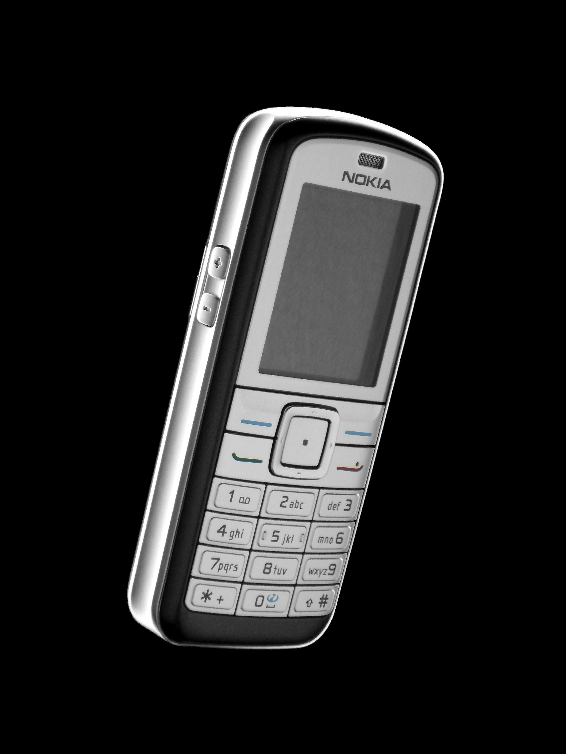 Nokia 6070.